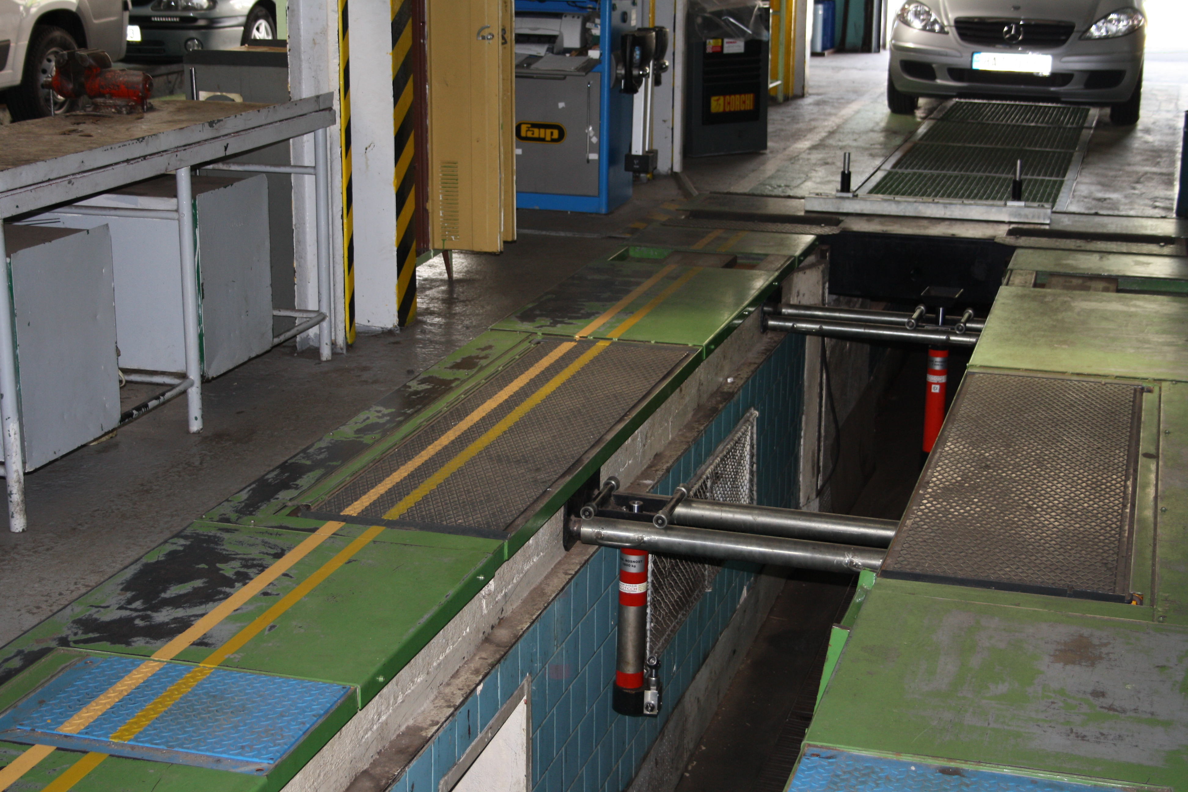 Automobile repair shop - workshop